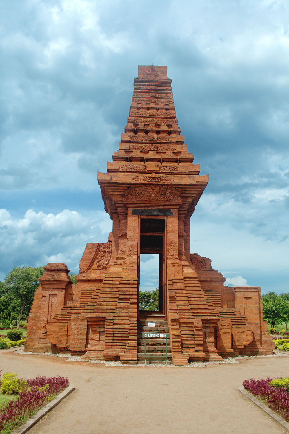 Bajang Ratu gate, East Java, Indonesia. The elegant 16.5 meter tall Paduraksa style gate of Bajang Ratu, Trowulan, East Java. The remnant in Trowulan, Majapahit imperial capital. Historian connect this gate with Crenggapura (Cri Ranggapura) or Kapopongan of Antawulan (Trowulan), the shrine mentioned in Nagarakertagama as the holy compound dedicated to King Jayanegara (second monarch of Majapahit) during his death on 1328.